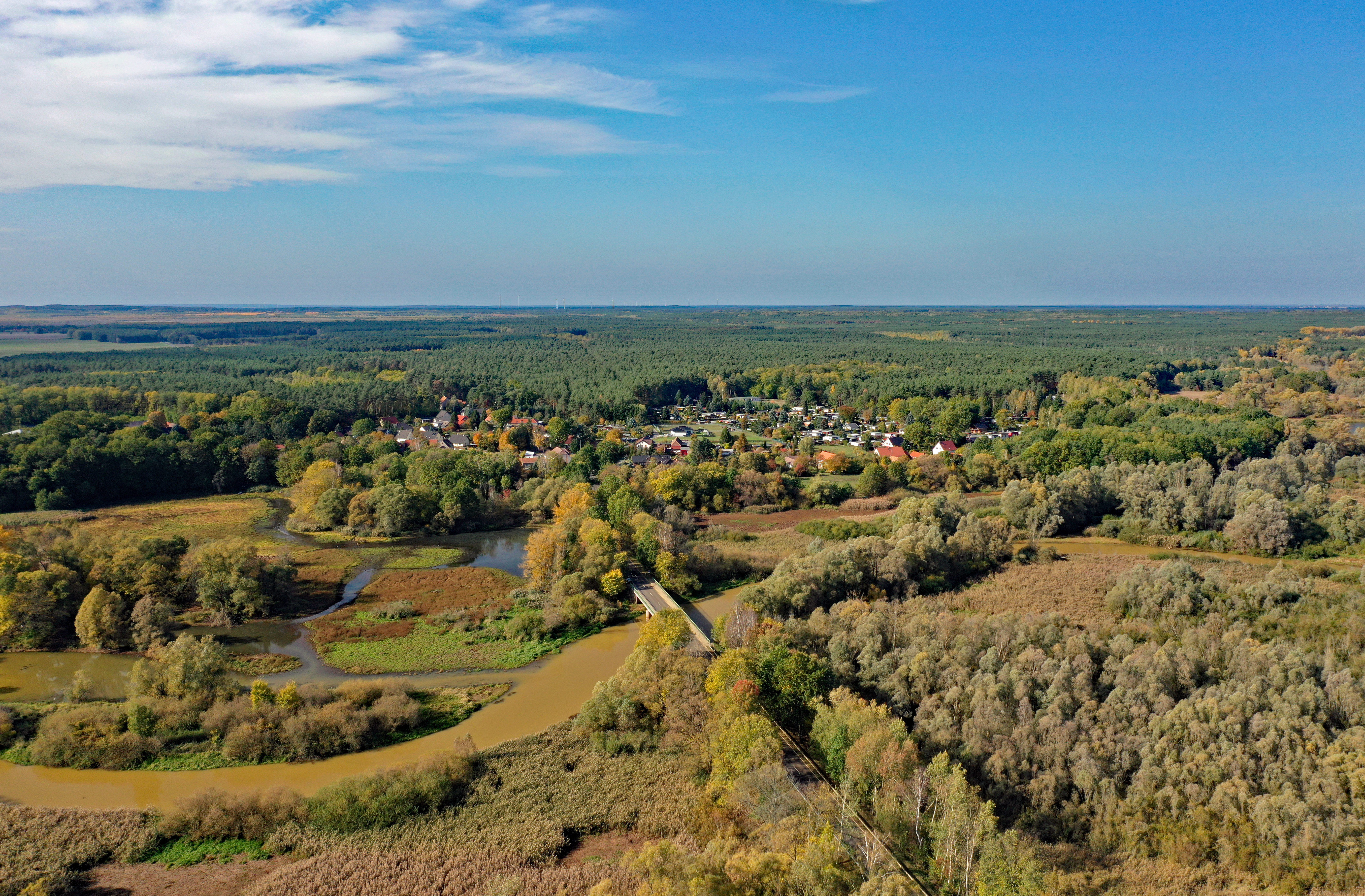 Bühlow, part of Sellessen (Spremberg, Brandenburg, Germany)